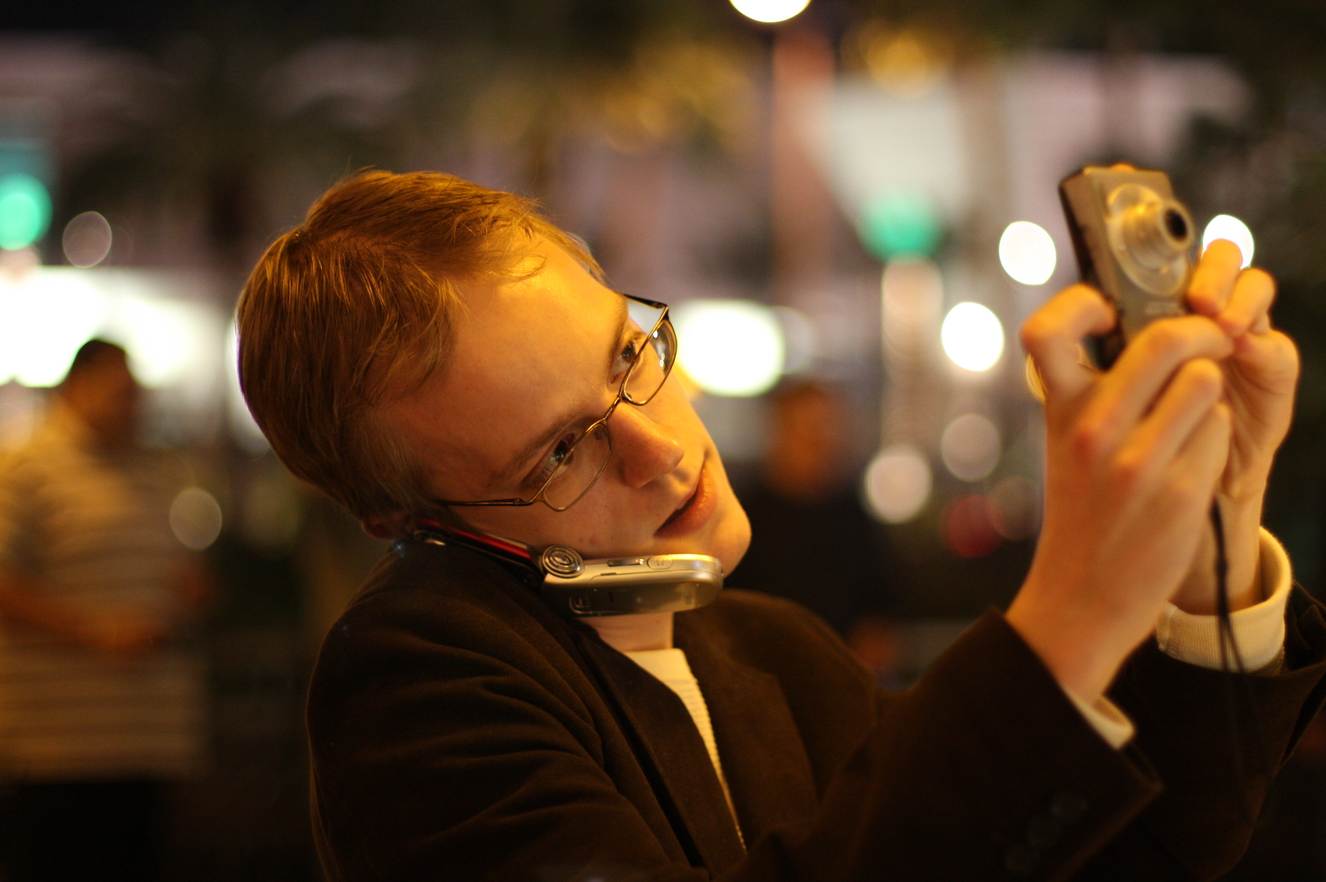 Someone with a phone and a camera